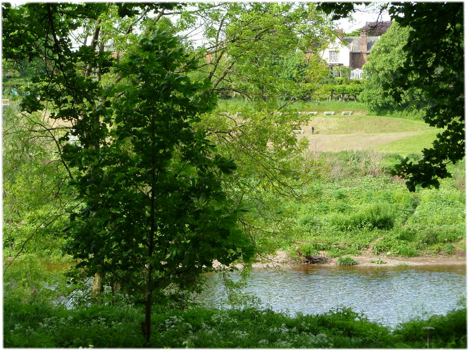 The site of Milecastle 66 (Stanwix Bank) seen from across the Eden, in Bitts Park, Carlisle. Looking North.